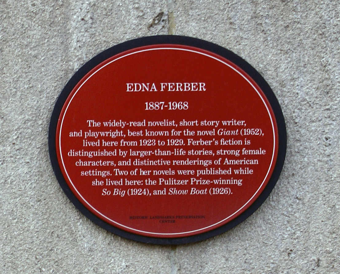 Plaque located at 65 street and Central Park West, in Manhattan, New York, USA; remembering the residence of Edna Ferber, a Pulitzer prize winner American writer.